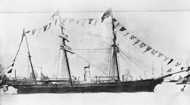 AWM Caption : "PORT MELBOURNE, VIC. 1867-11. THE STEAM SLOOP VICTORIA (I) SHOWING HER STARBOARD SIDE WITH THE SHIP DRESSED AND YARDS MANNED IN HONOUR OF THE DUKE OF EDINBURGH, AUSTRALIA'S FIRST ROYAL VISITOR. BUILT FOR THE GOVERNMENT OF THE COLONY OF VICTORIA, VICTORIA (I) WAS THE FIRST WAR VESSEL CONSTRUCTED IN ENGLAND TO THE ORDER OF A BRITISH COLONY. LAUNCHED IN LONDON ON 1855-06-30 THE SHIP REACHED VICTORIA ON 1856-05-31. SHE CARRIED OUT DUTIES IN SEVERAL ROLES IN AUSTRALIAN AND NEW ZEALAND WATERS UNTIL SOLD OUT OF NAVAL SERVICE IN THE LATE 1870S. FROM 1880 THE VESSEL WORKED AS A TENDER AND THEN AS AN EXCURSION STEAMER. VICTORIA (I) WAS FINALLY SOLD IN 1895-08 FOR BREAKING UP. (NAVAL HISTORICAL COLLECTION)".